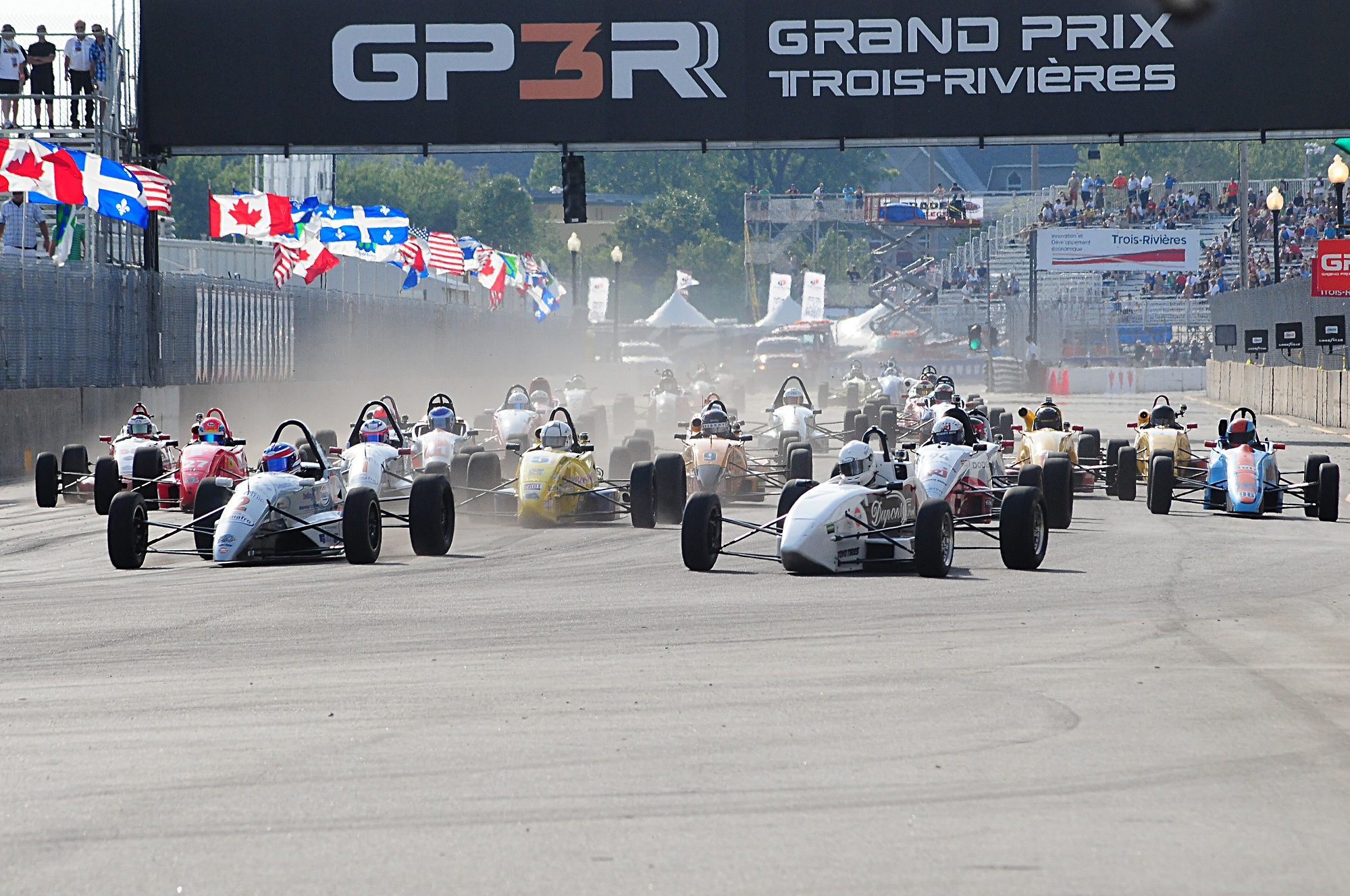 Chris Vlok GP3R Grand Prix Trois Rivieres